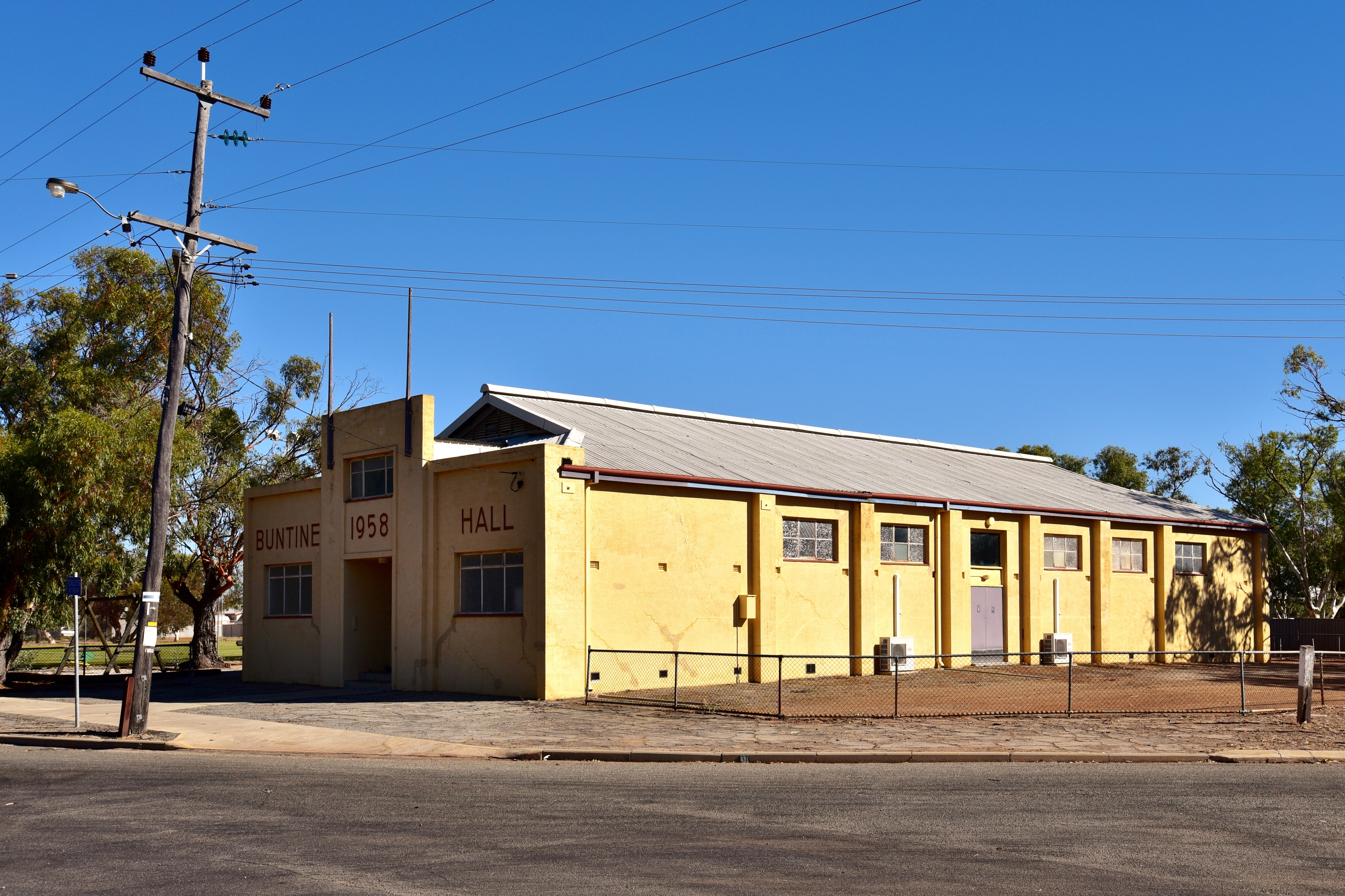 View of Buntine Hall, Buntine, Western Australia